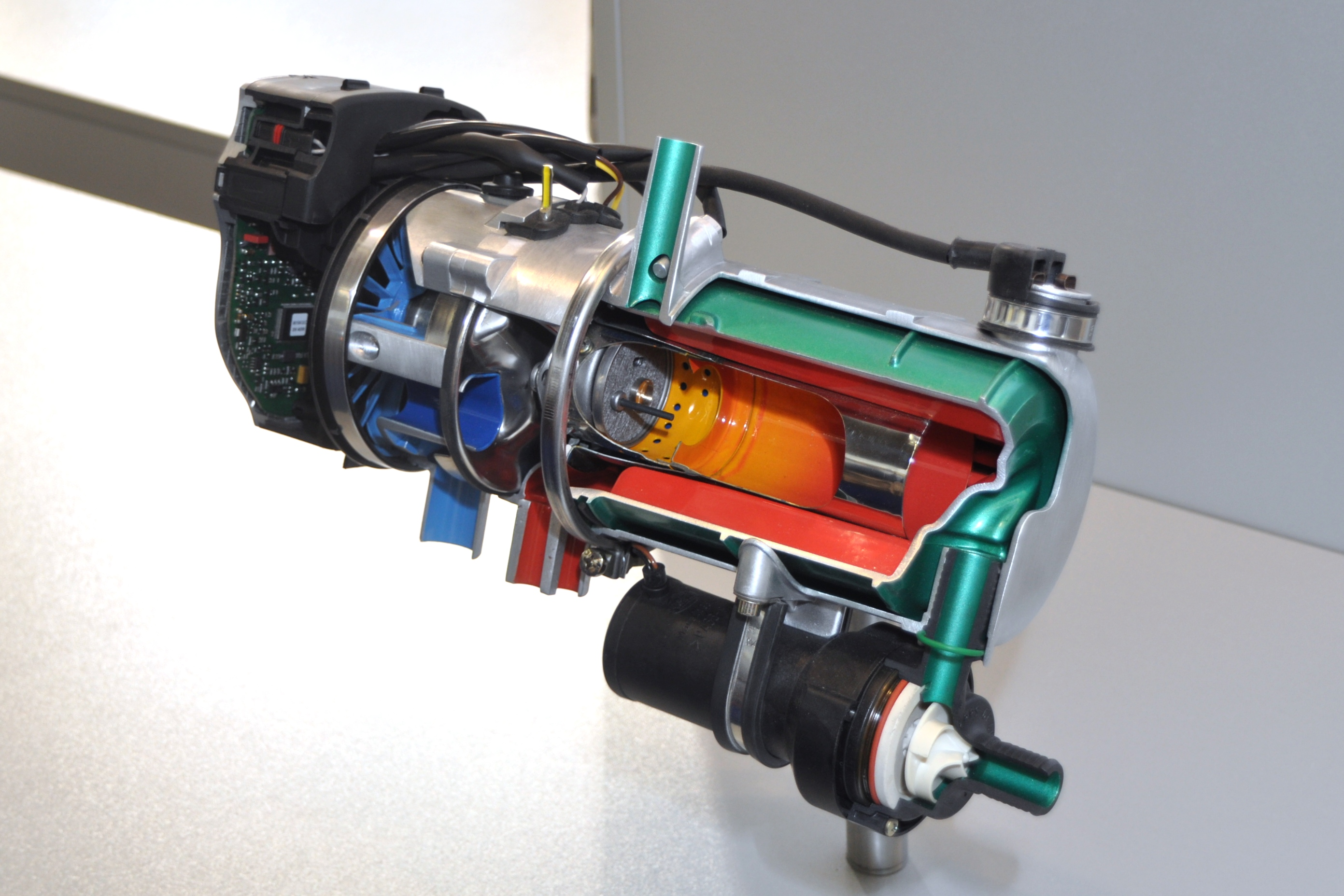 Webasto Th 90 S Diesel Heater control unit - SG 1577 METS 2011 RAI Amsterdam